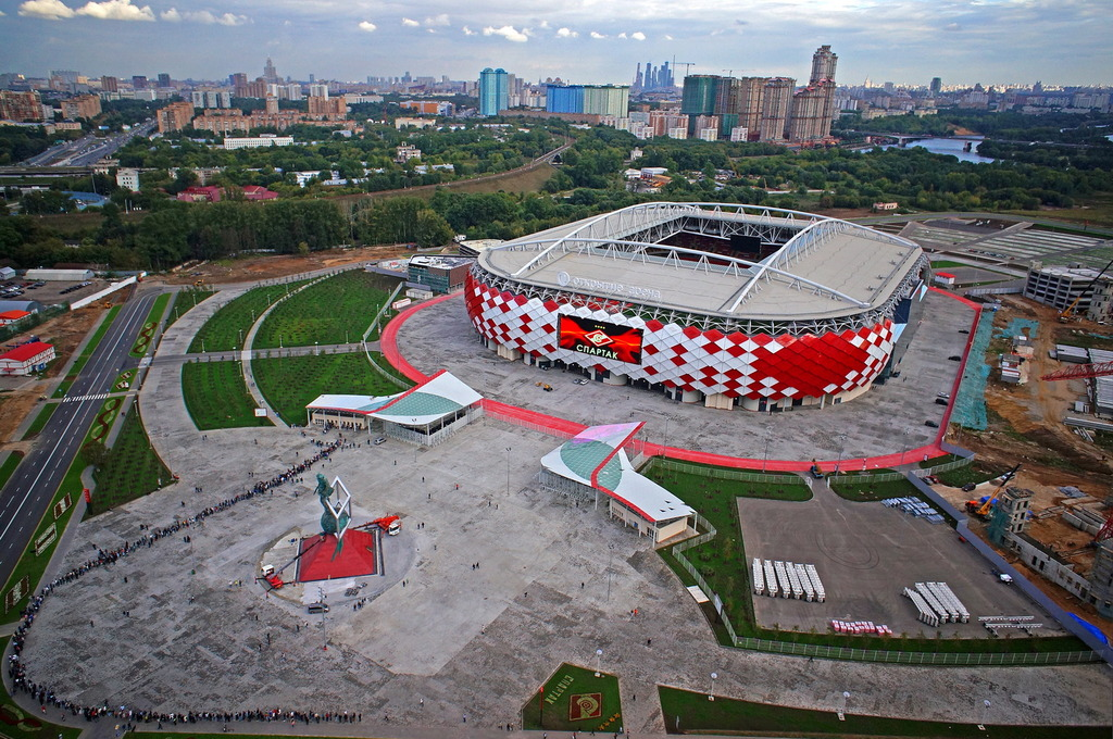 Stadium Otkrytiye Arena in Moscow